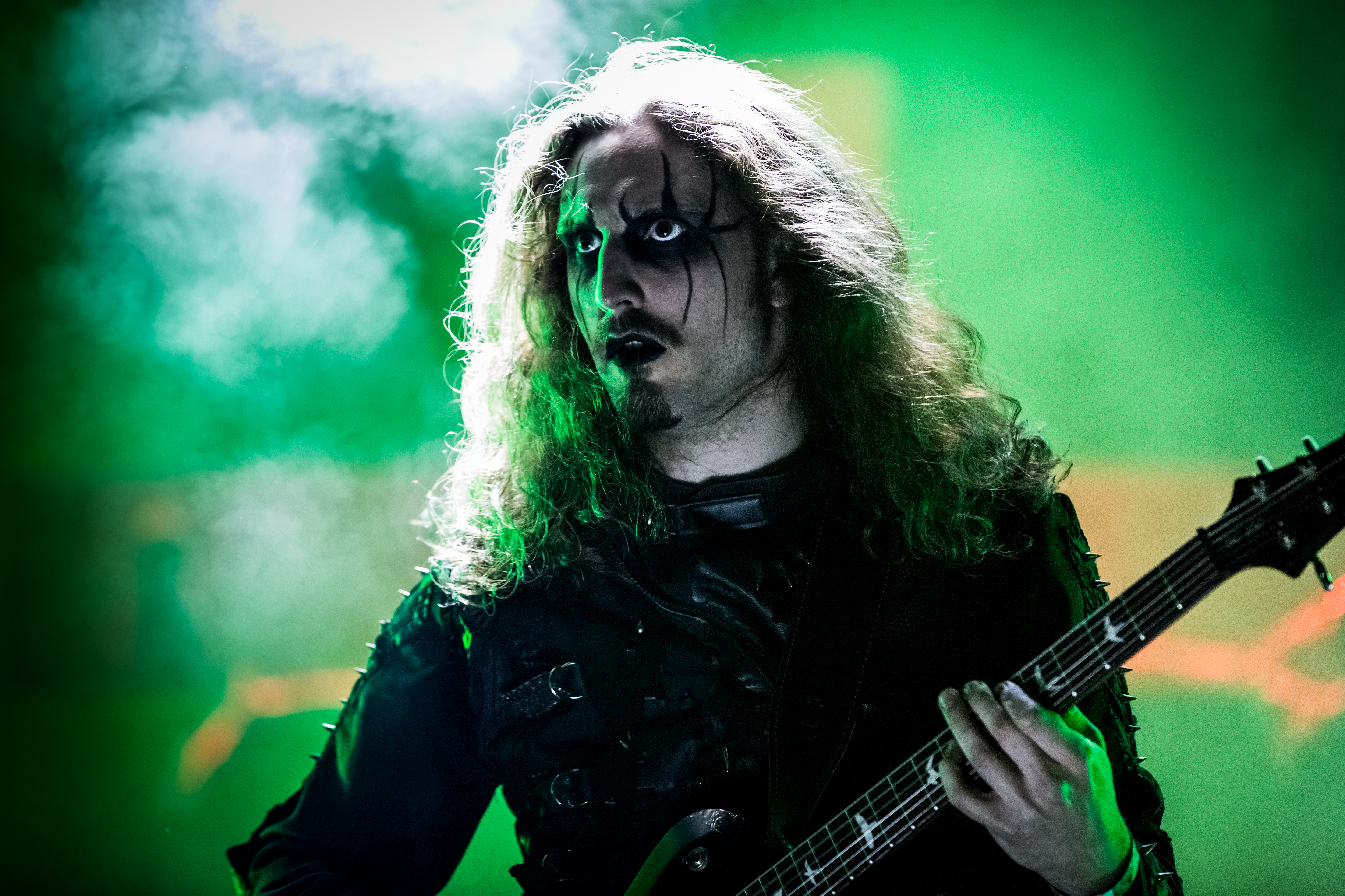 Cradle of Filth - Wacken Open Air 2015